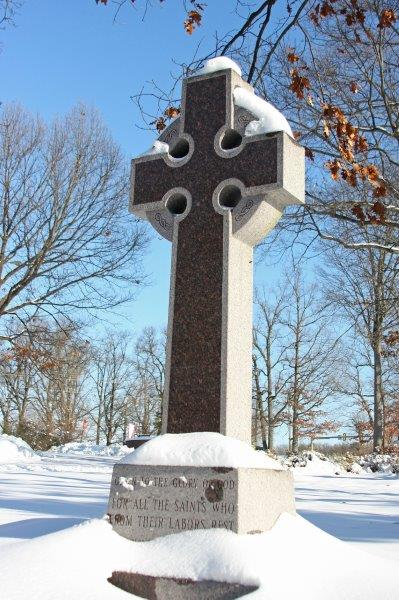 Celtic cross with inscription on bright winter day